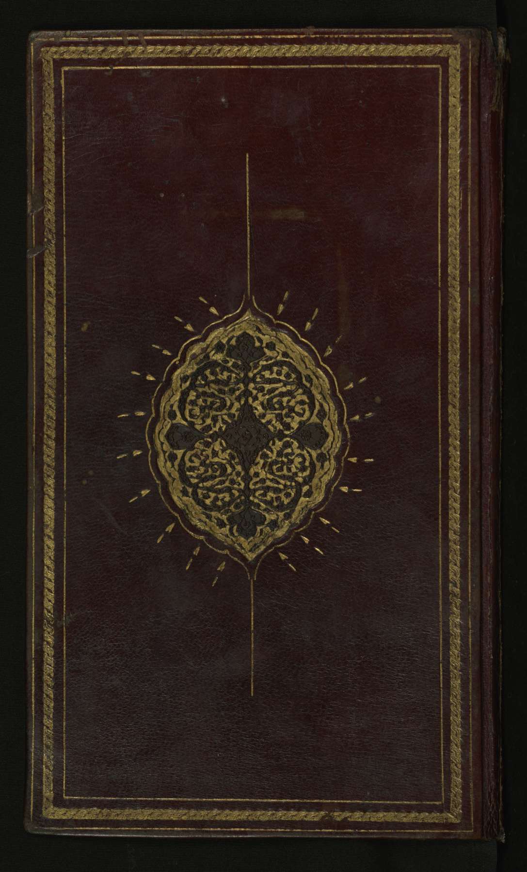 Walters manuscript W.585, a work on Sufism in the form of questions entitled Khawatim al-hikam is by 'Ali Dede al-Busnawi (died 1007 AH/AD 1598). This particular Ottoman copy was written in Nasta'liq script by Mustafá ibn al-Hajj Muhammad in 1081 AH/AD 1670. The Arabic text begins with an illuminated headpiece (fol. 1b). The red leather binding with central lobed oval with arabesques on a gold ground is contemporary with the manuscript.